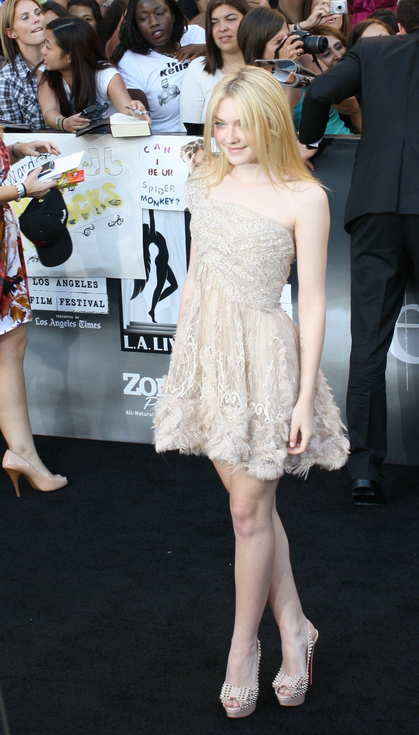 Actress Dakota Fanning at Twilight Saga: Eclipse Premiere at Nokia Plaza in Los Angeles, CA